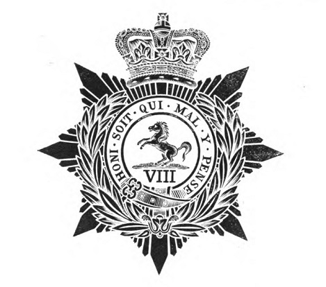 Cap badge of the 8th (The King's) Regiment of Foot